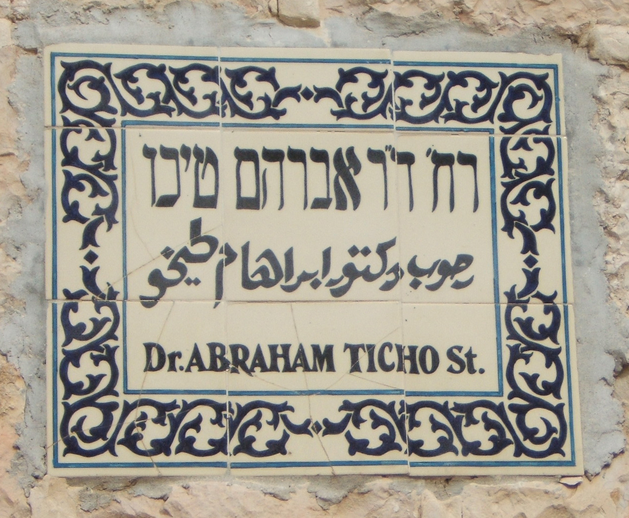 Dr. Ticho street, Jerusalem - Old Quarter "Beit David" in Jerusalem (Named after the philanthropist David Reyes). House of Rav Kook and first location of Mercaz HaRav Yeshiva